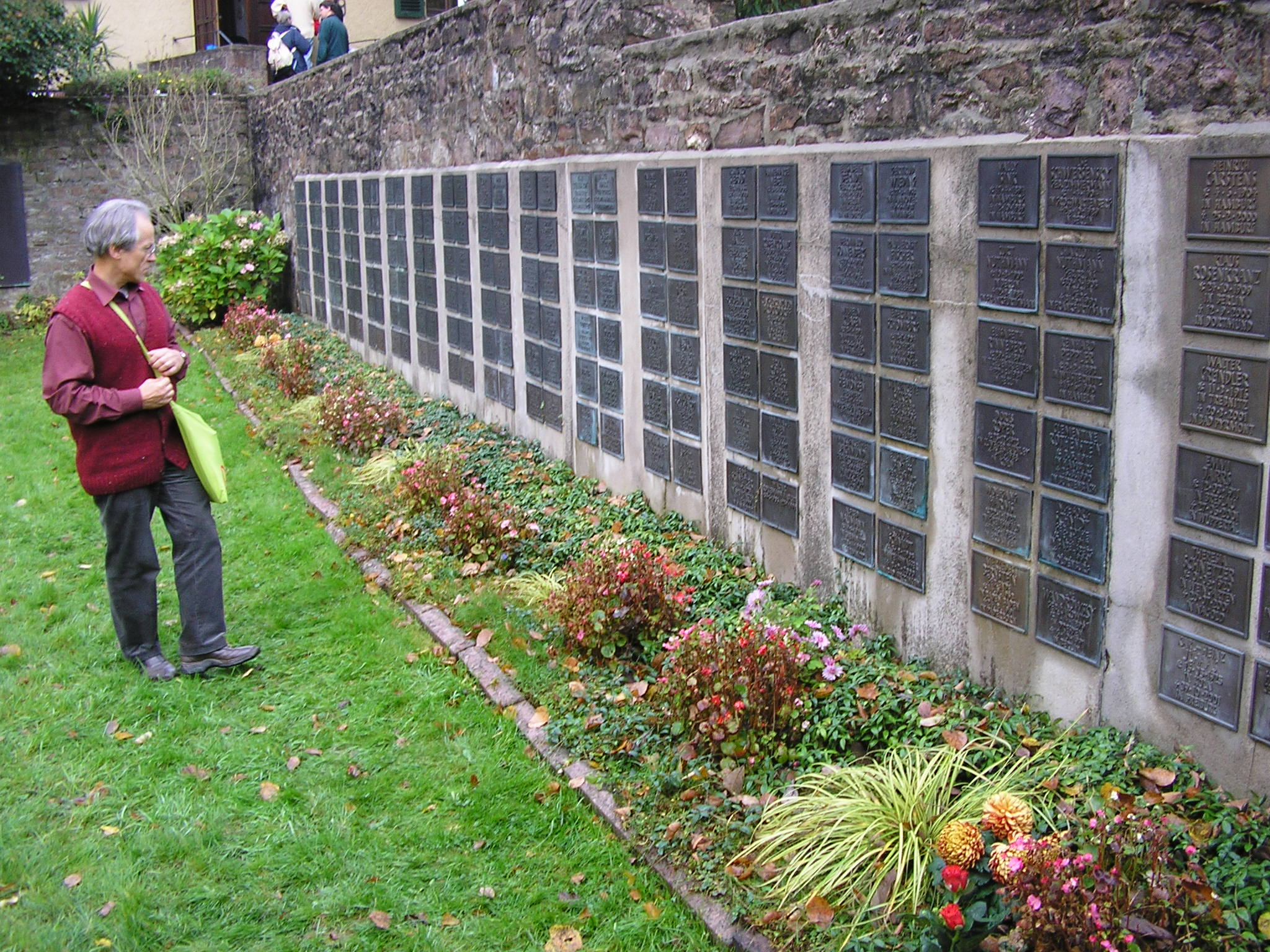 Quaker cemetery in Bad Pyrmont, Germany